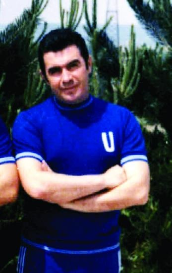 Constantin Cernăianu former coach of Universitatea Craiova